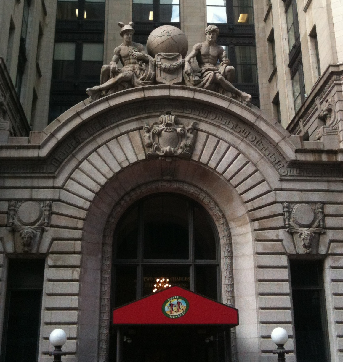 Mercury, the Roman god of commerce, an allegorical feature called Progress of Industry, cradling a locomotive, adorn the front entrance of the current Hotel Monaco at 2 North Charles Street.